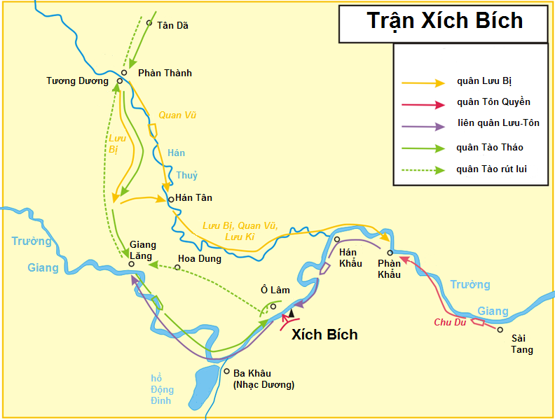 Battle of Red Cliffs. Vietnamese version of Image:Chibizhizhan.png